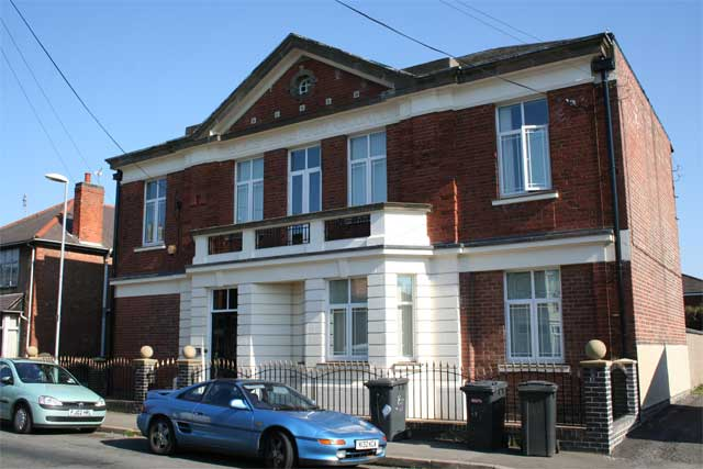 The Leicestershire Miners' Association building. The Leicestershire Miners' Association building at 8 Bakewell Street, Coalville. Now home to Stirling Solutions who produce software for the road haulage industry.